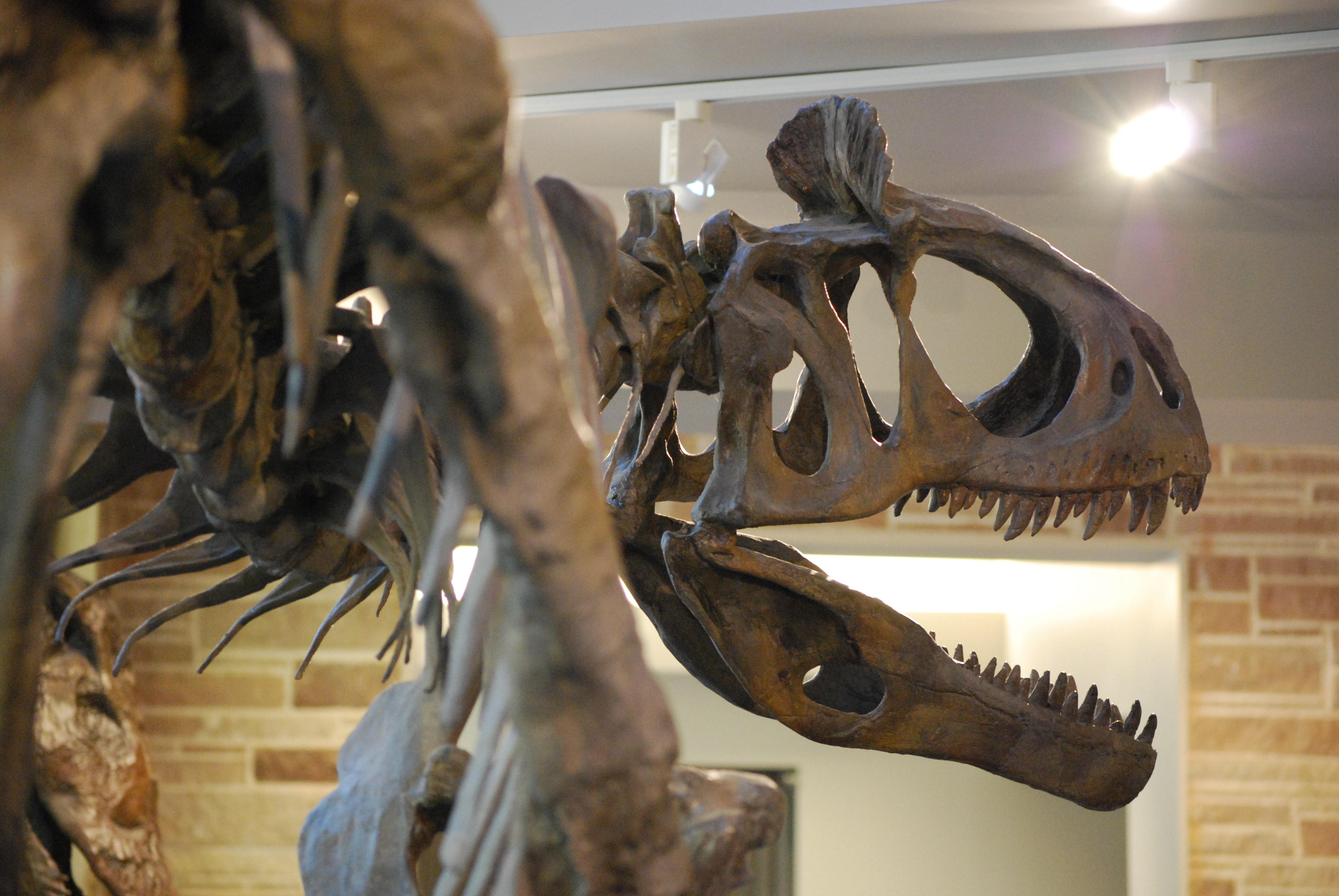 Rear view of Cryolophosaurus at Augustana College in Rock Island, IL.